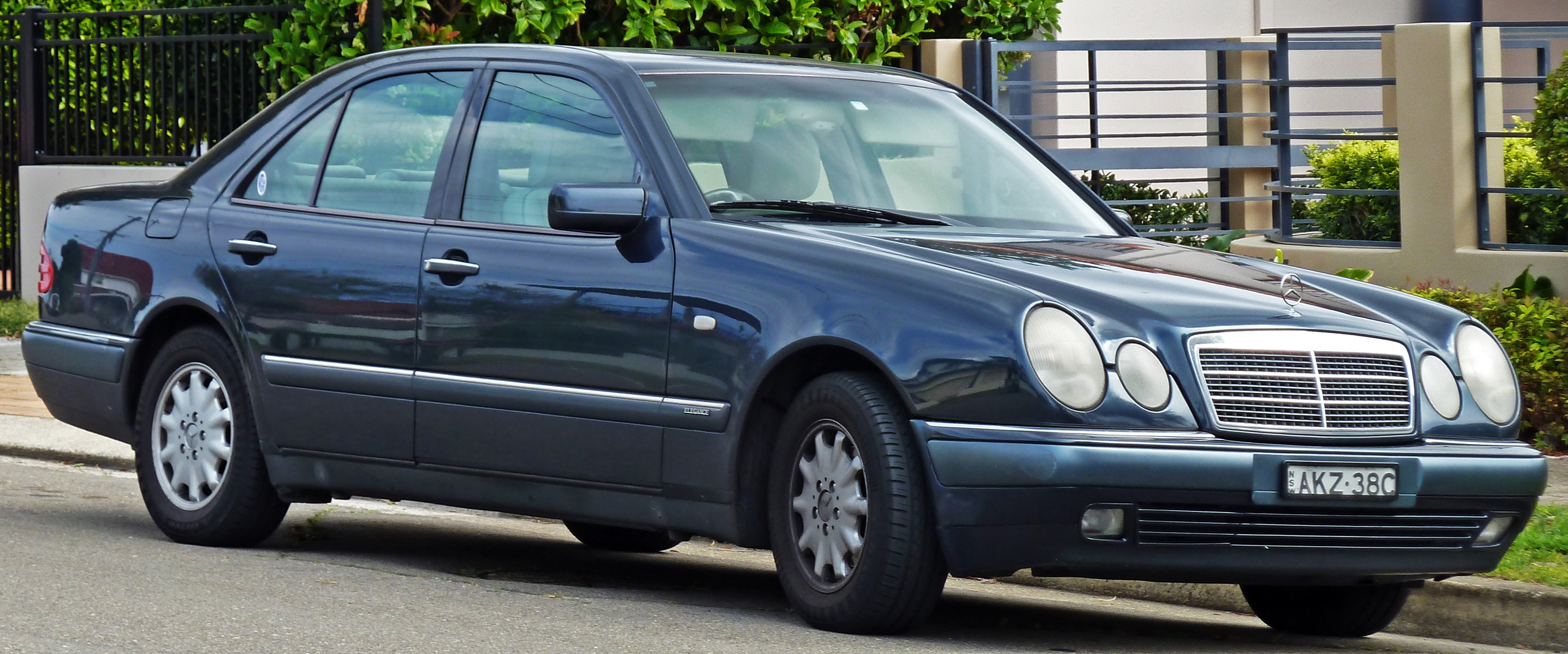 1996–1997 Mercedes-Benz E 230 (W 210) Elegance sedan. Photographed in Sandringham, New South Wales, Australia.